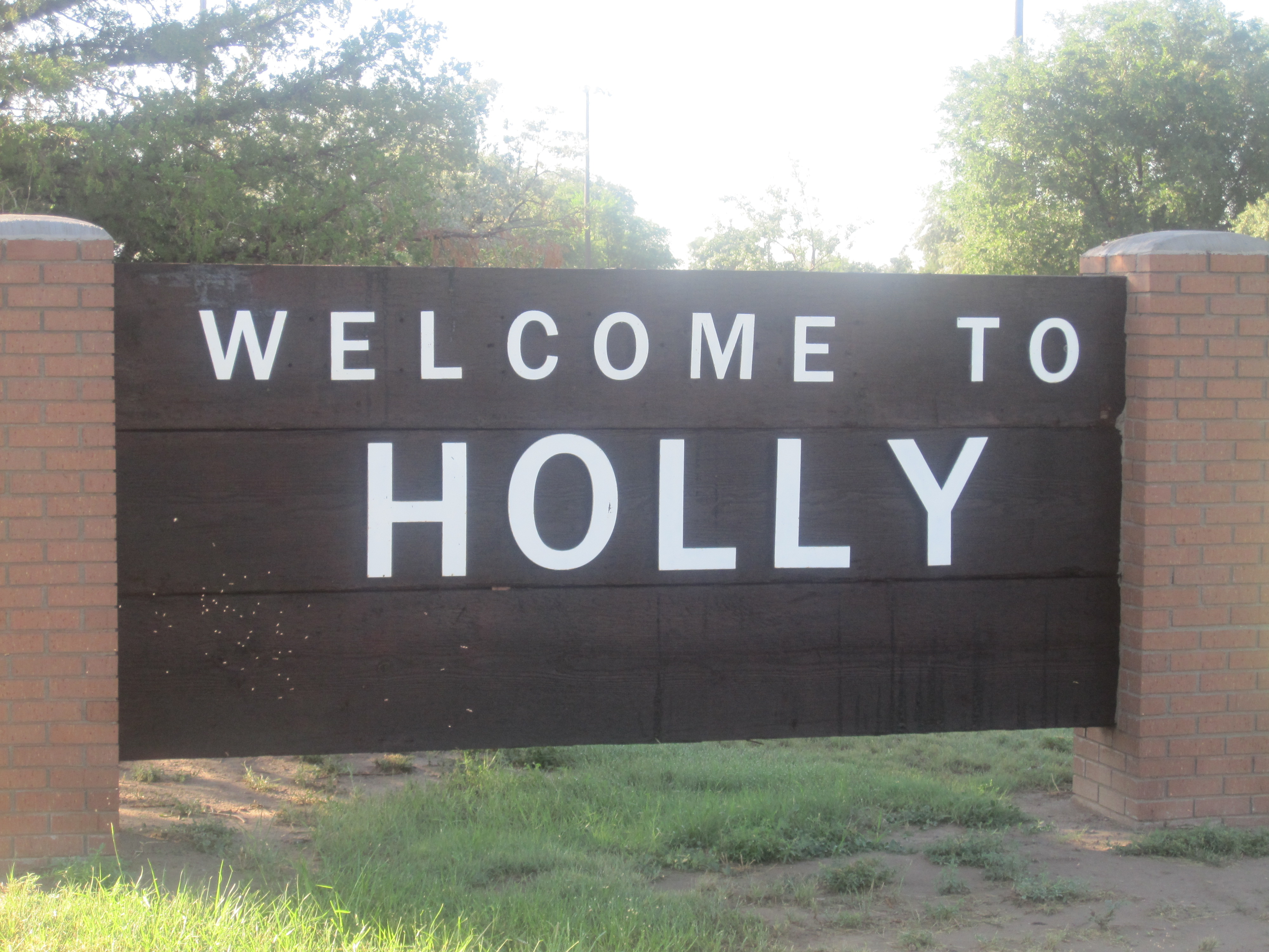 I took photo with Canon camera in Holly, CO.